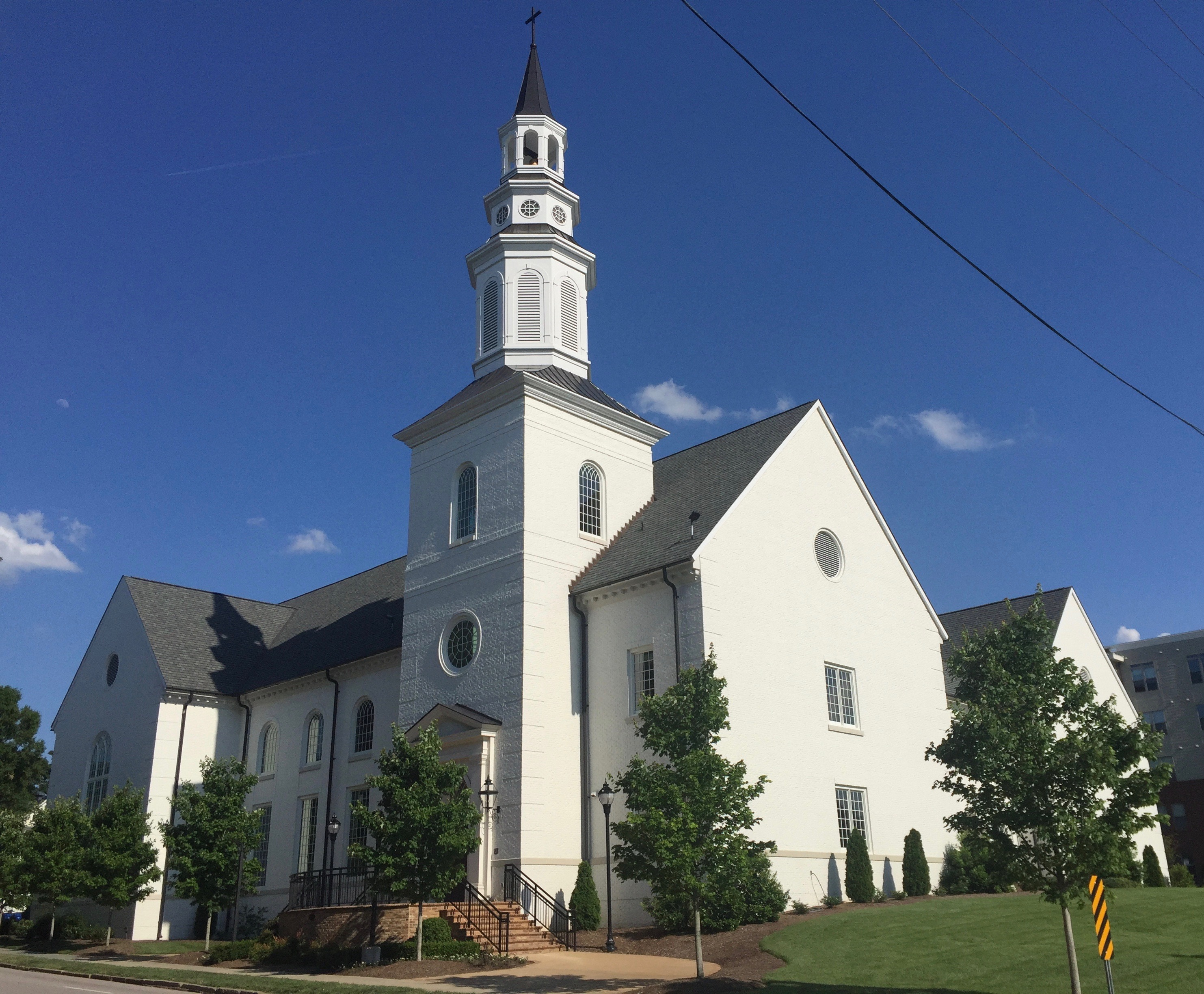 Though this church may appear at first glance to be a few centuries old, the building was, in fact, built in 2015 to house the Holy Trinity Anglican Church at the northeastern edge of Downtown Raleigh. Constructed in the Colonial style, the church carries on the architectural legacy of Renaissance and Georgian-era England that was carried to the new world by colonists in the 18th Century. It is a charming and lovely addition to downtown Raleigh, and fits in nicely with the verdant tree-lined streets and historic homes in its surroundings.